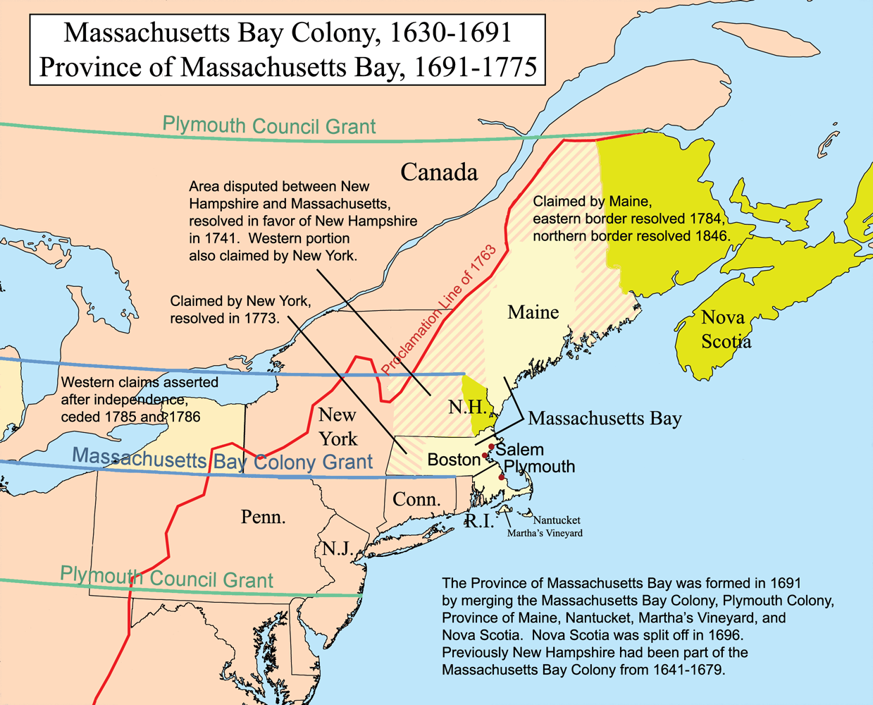 This is a map of the Province of Massachusetts Bay that I made. Boundary disputes between colonies not involving Massachusetts are not shown.